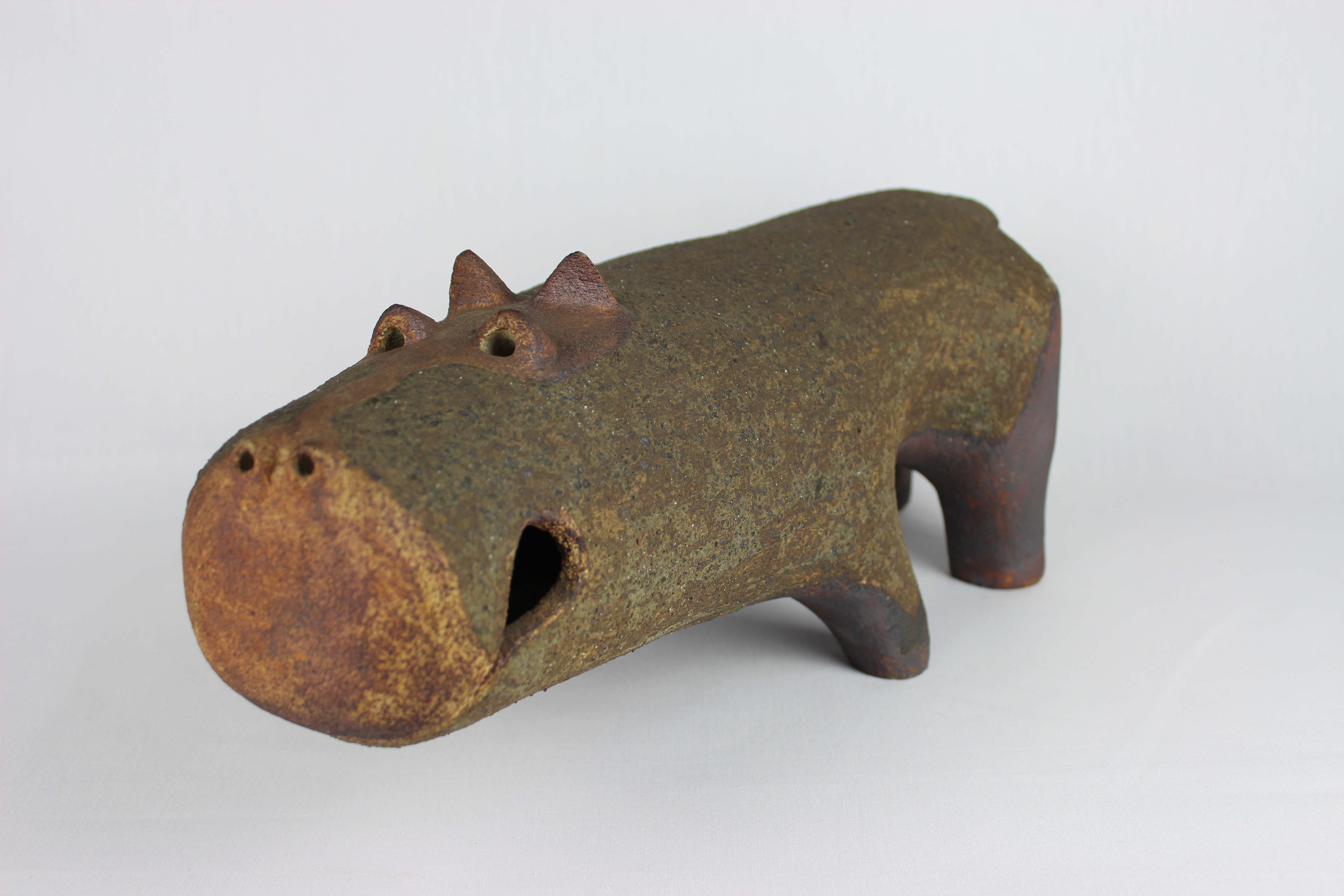 Large figure of a hippo. Textured body with iron stain. From the W.A. Ismay Studio Ceramics Collection at York Art Gallery